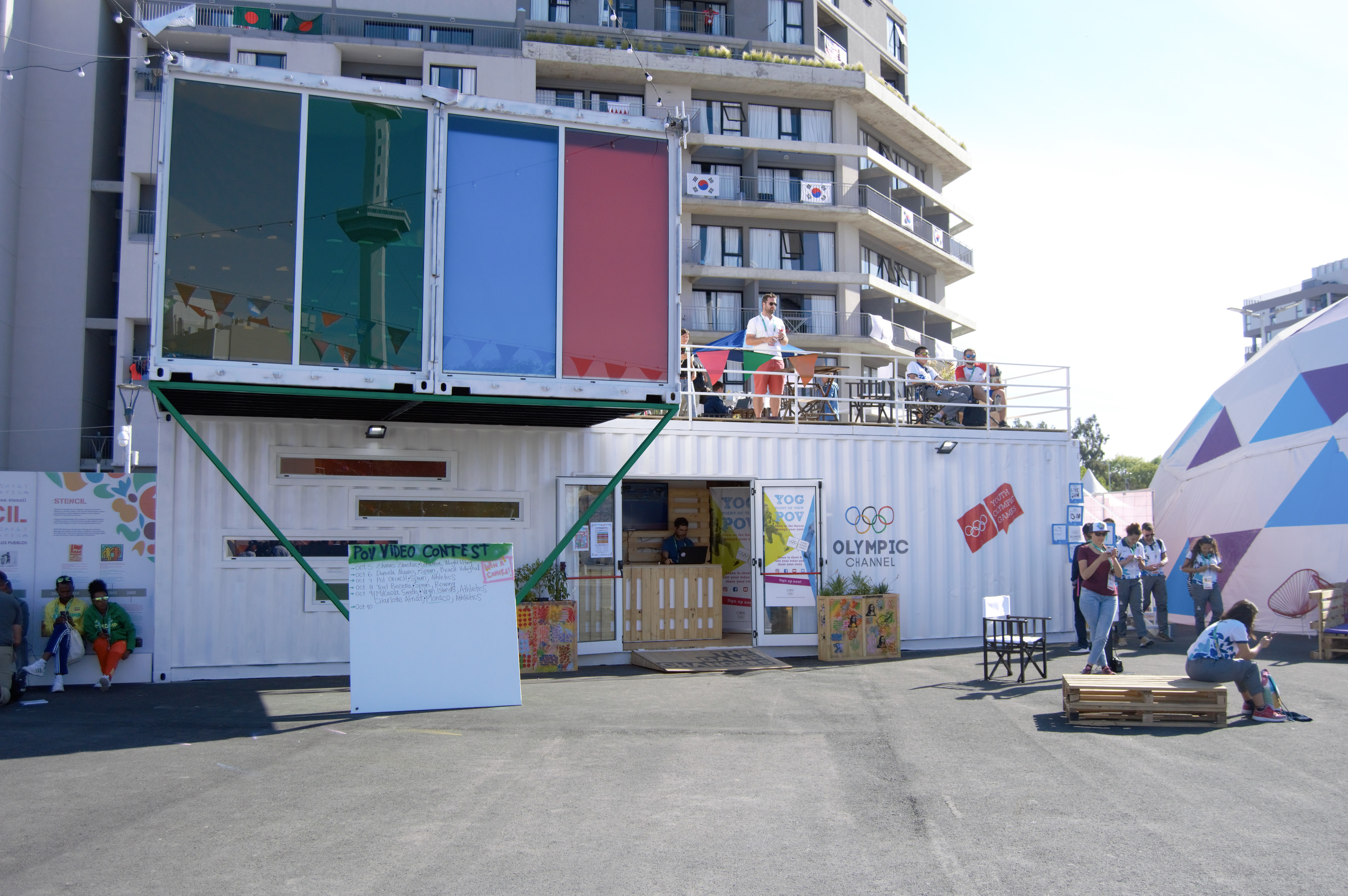 Buenos Aires Olympic Village during the 2018 Summer Youth Olympics.